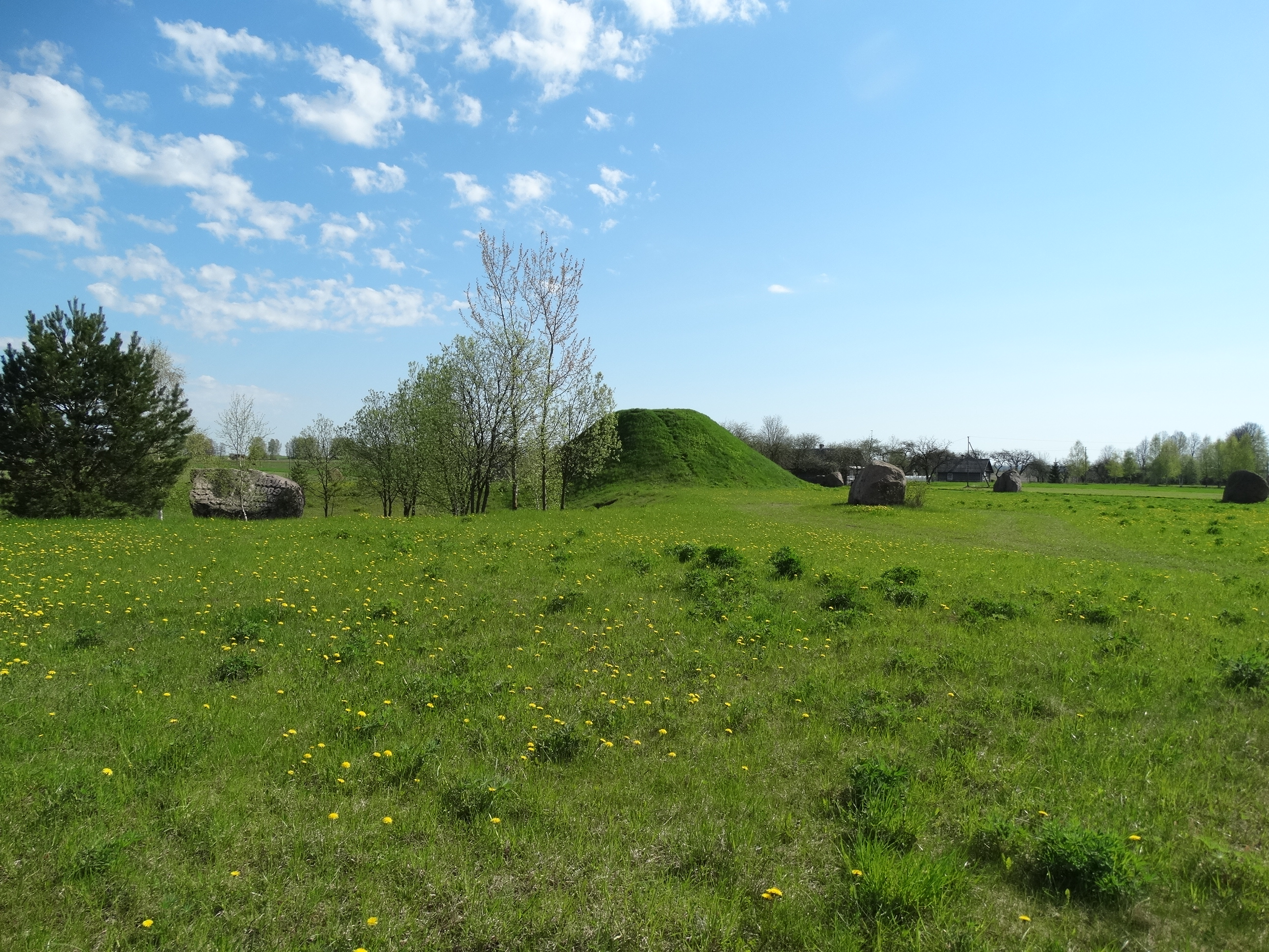 Stone in Rėžiai, Šalčininkai District, Lithuania